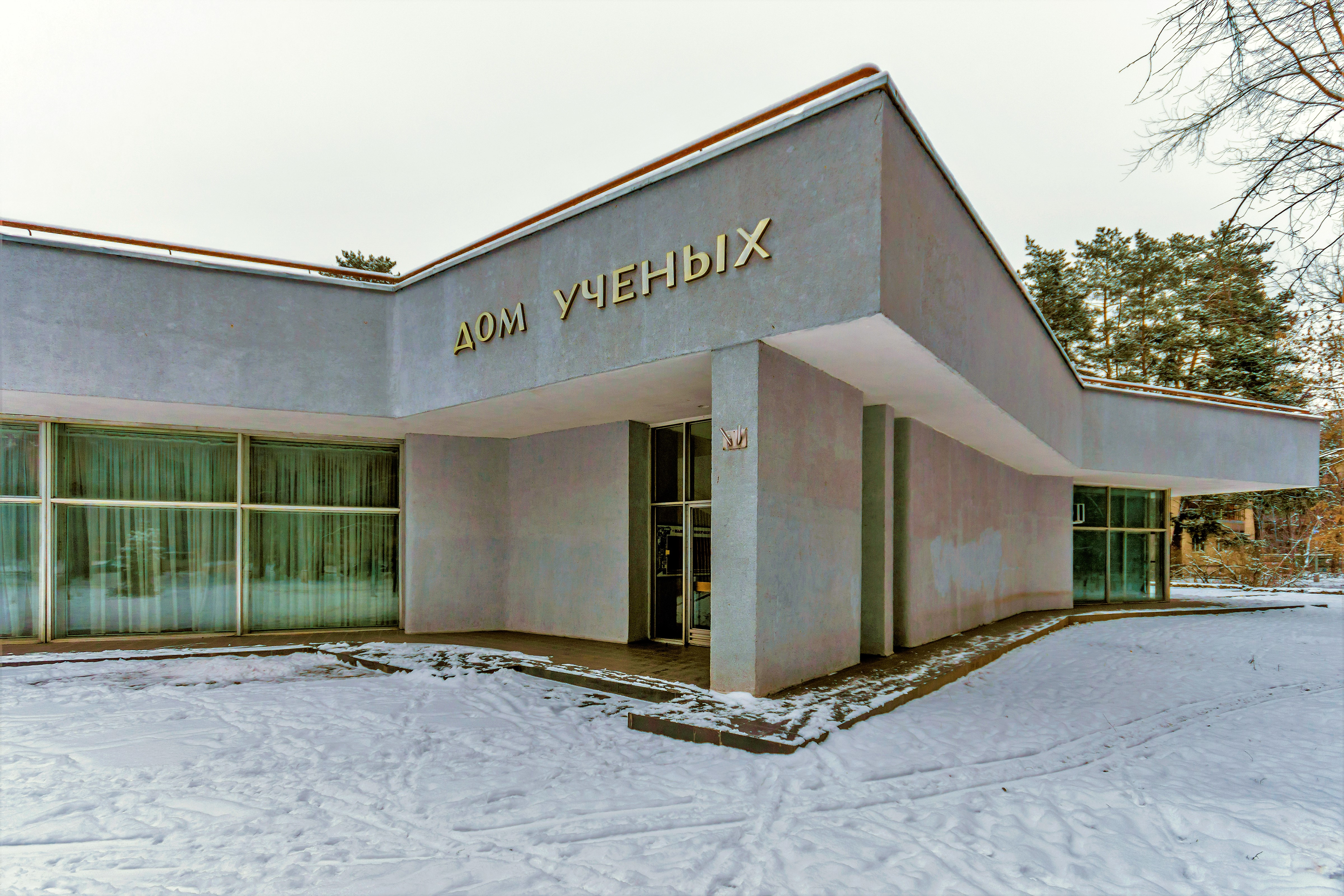 The House of Scientists in Protvino town of Moscow Oblast, Russia